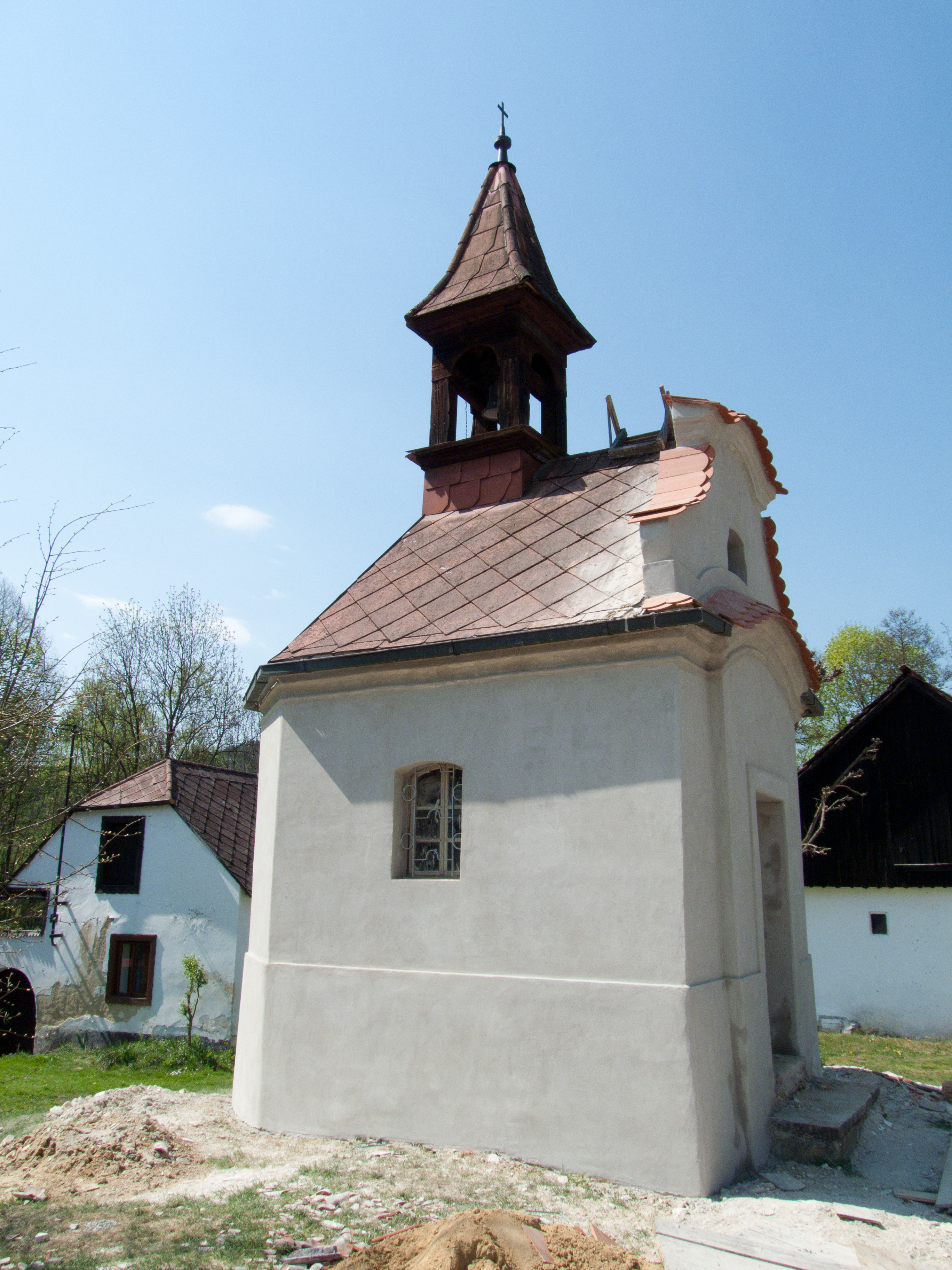 Chapel in the village of Přední Zborovice, Strakonice District, Czech Republic.